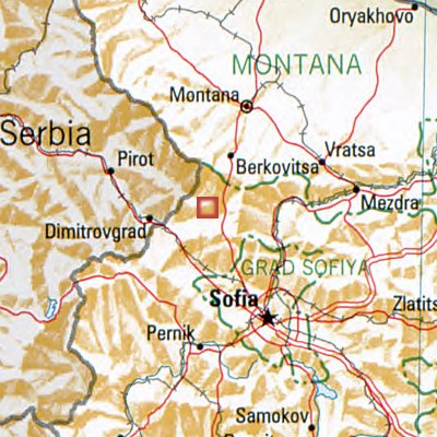 Bulgaria 1994 CIA map, city: part of the map Bulgaria_1994_CIA_map.jpg This image is in the public domain because it contains materials that originally came from the United States Central Intelligence Agency's World Factbook.